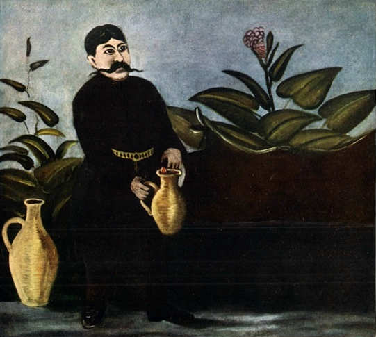 Pirosmani. Sarkis Pouring Wine. Oil on oil-cloth, 92x101 cm. The State Museum of Fine Arts of Georgia, Tbilisi